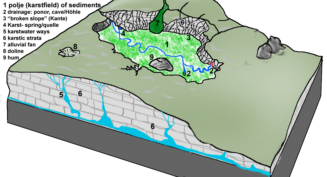 Chart of a karstic basin, (Karst field or Polje], as observed in many Karst topographies; exist, depending on geological strata, age, tectonics of the Lithosphere and on the state of karstic processes.